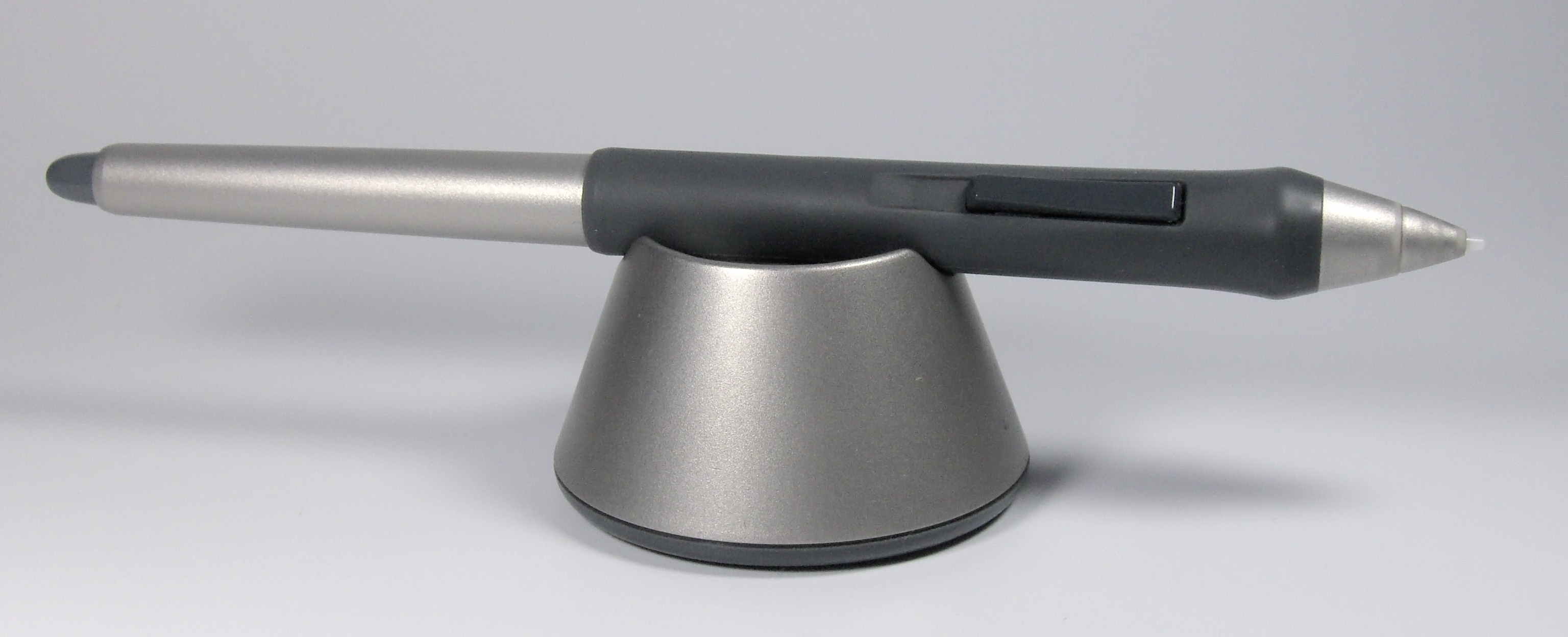 Intuos 3 Wacom, Pentablet, Pen